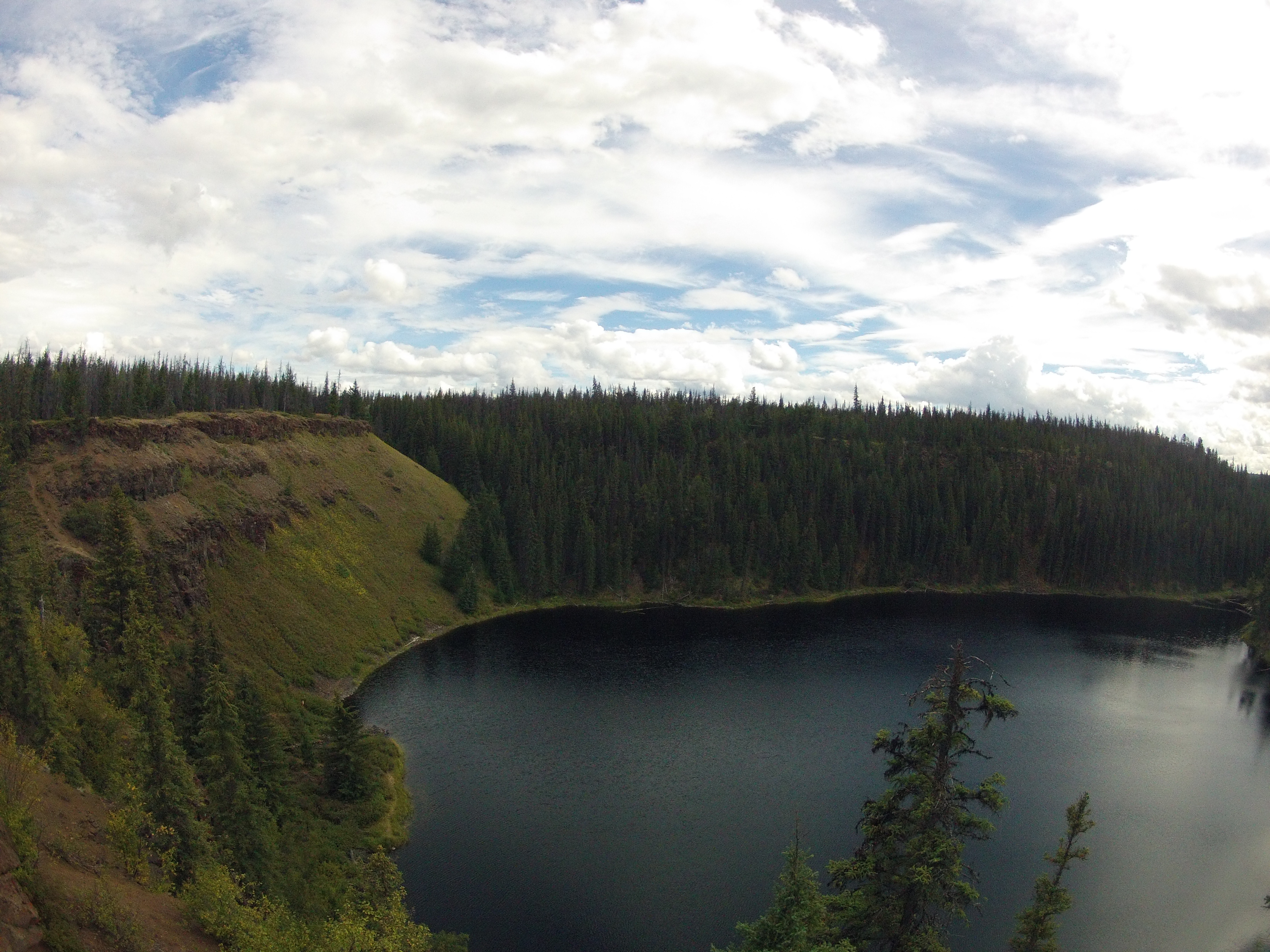 Crater Lake, Cariboo Region, British Columbia, Late summer.